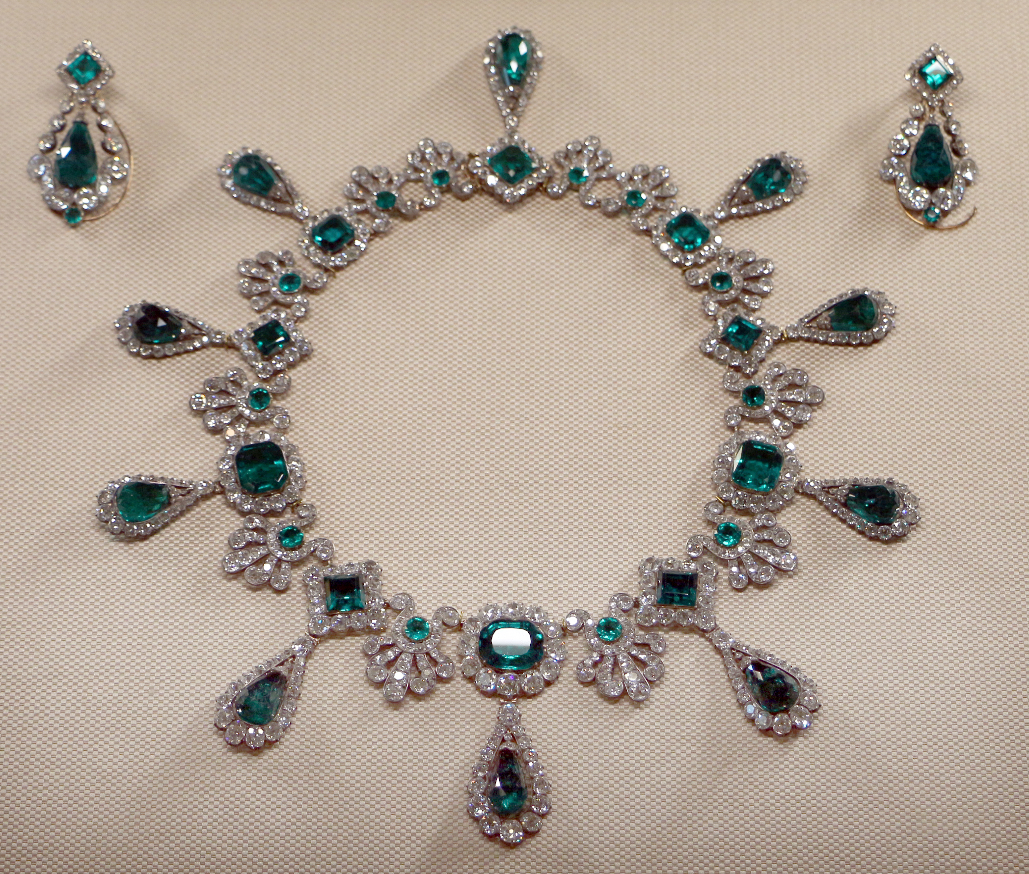 Crown jewels of France (gallery of Apollo)